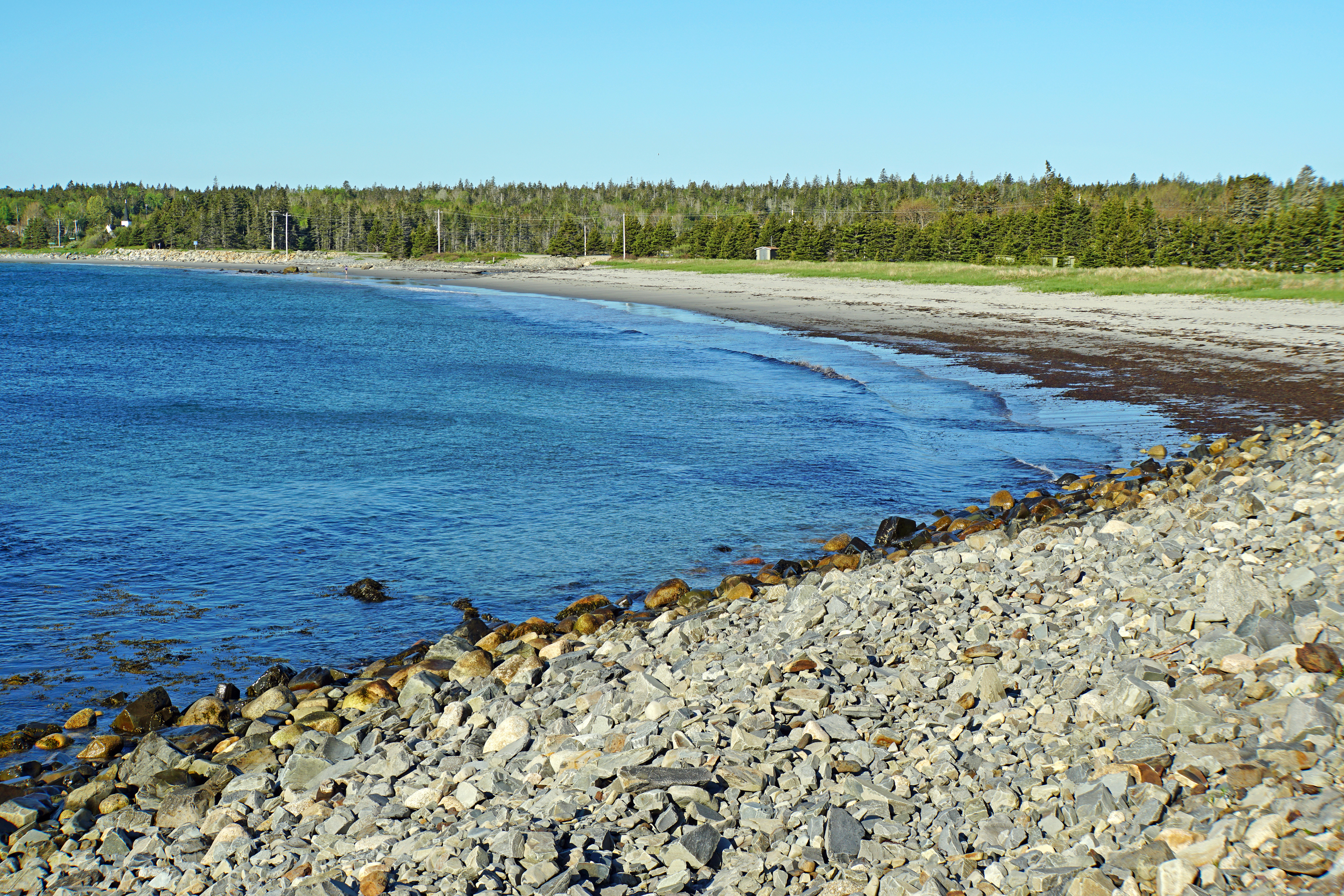 PLEASE, NO invitations or self promotions, THEY WILL BE DELETED. My photos are FREE to use, just give me credit and it would be nice if you let me know, thanks. There is a person jogging at the top of the beach, very small. Bayswater Beach Provincial Park is located along the South Shore. The beach park features a large white-sand beach and a picnic area with a view of the open ocean. Outdoor barbecue grills, change rooms and toilets are also available. Across the highway from the beach, you can visit the cairn in memory of passengers and crew of Swissair Flight 111.